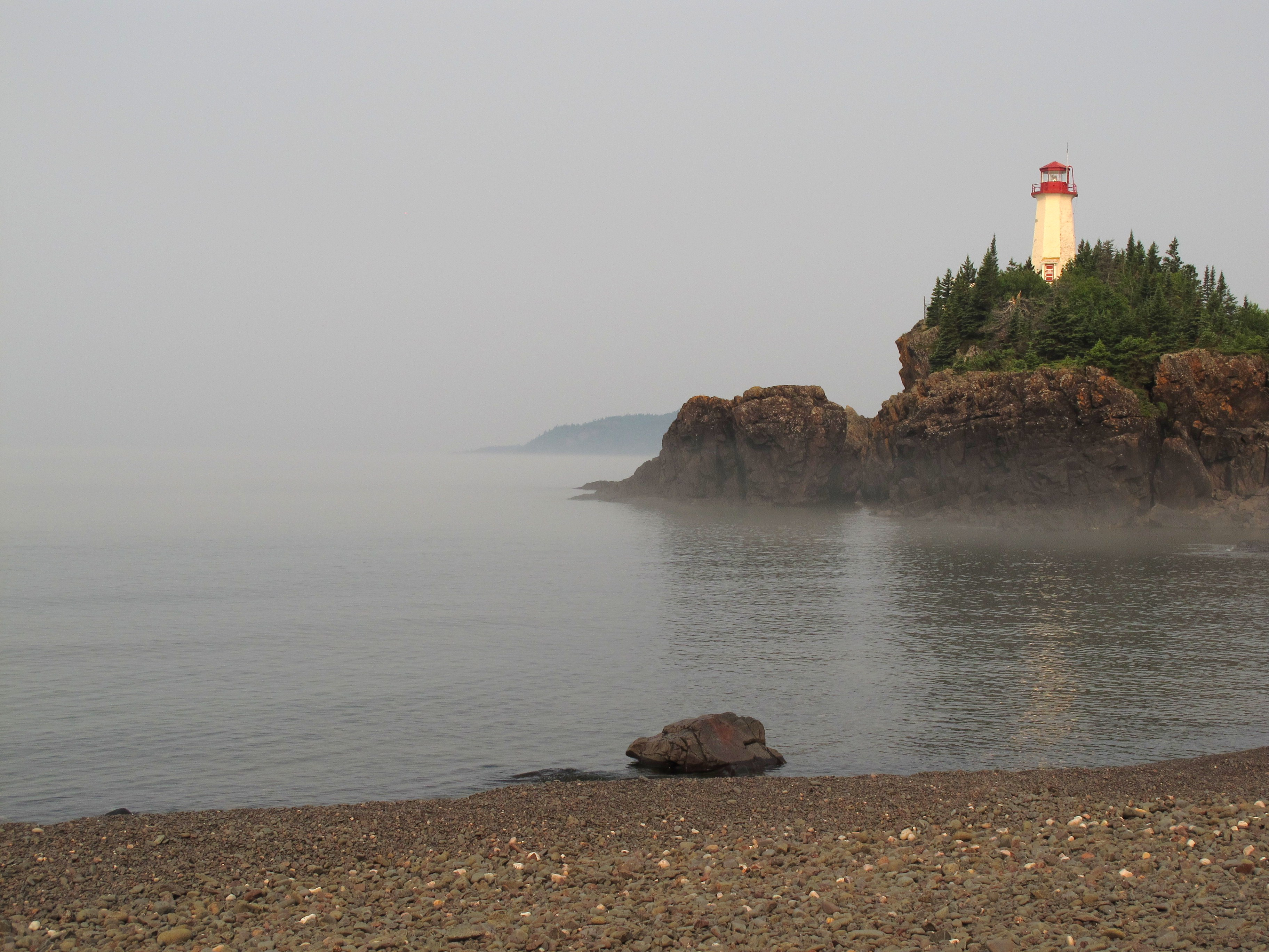 A photograph of Battle Island Light, a lighthouse in Ontario, Canada, on Lake Superior, taken in the mist